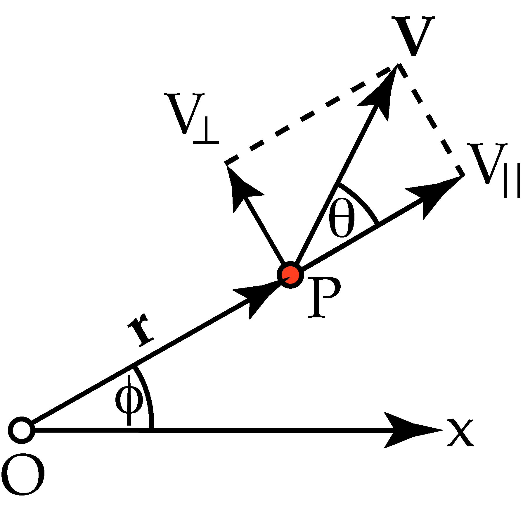 Diagram of a particle at radius vector r with velocity V showing the radial and tangential components of the velocity, the angle of the radius vector with respect to the x axis and the angle of the velocity vector with respect to the radius vector.